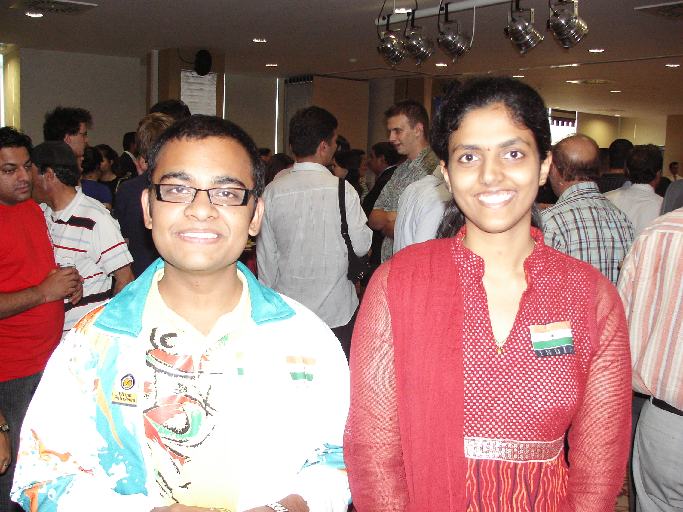 World Junior Chess Champions 2008, GM Abhijeet Gupta India and WGM Harika Dronavalli India, Gaziantep 2008